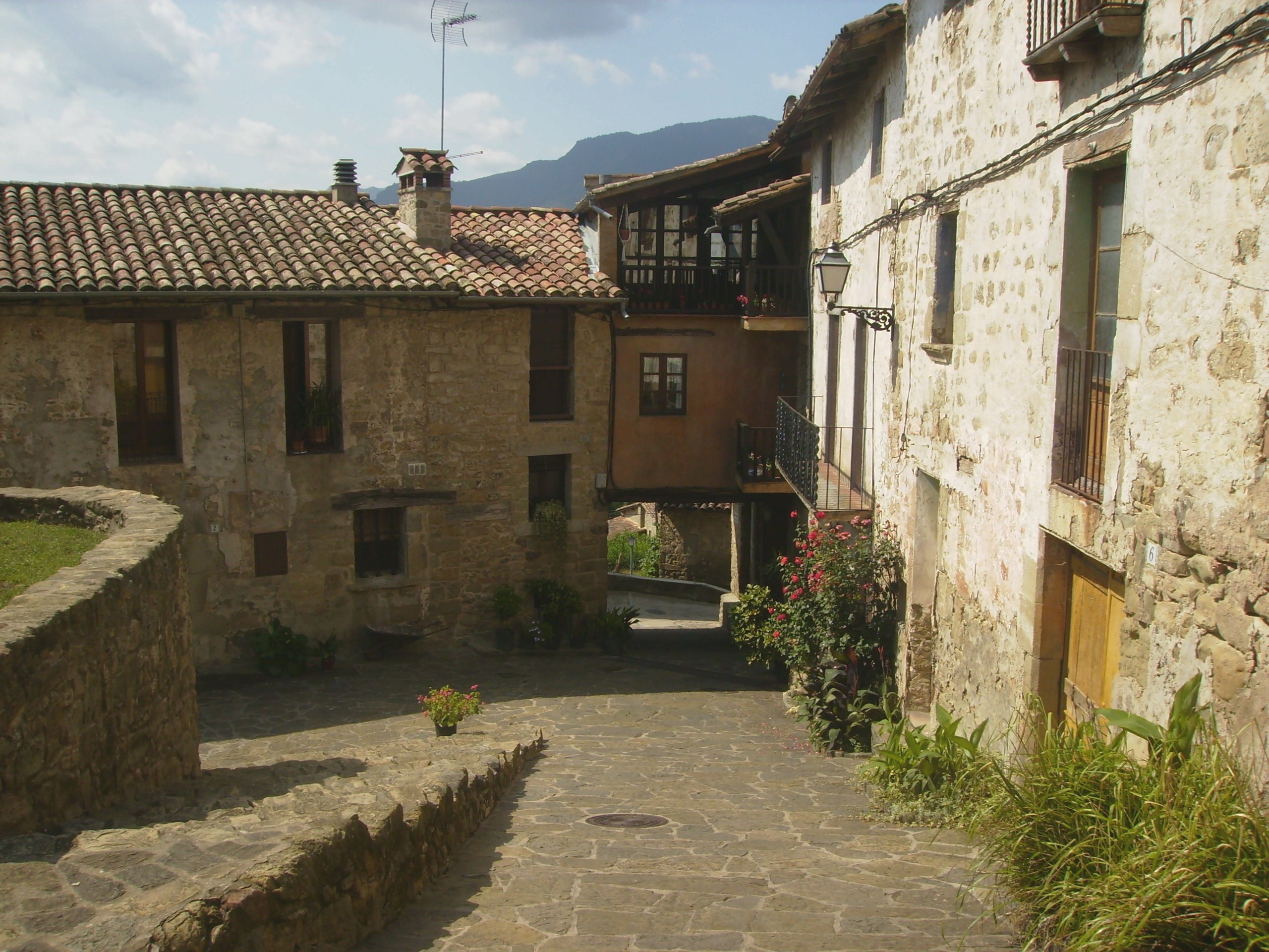 El Mallol (Catalonia)